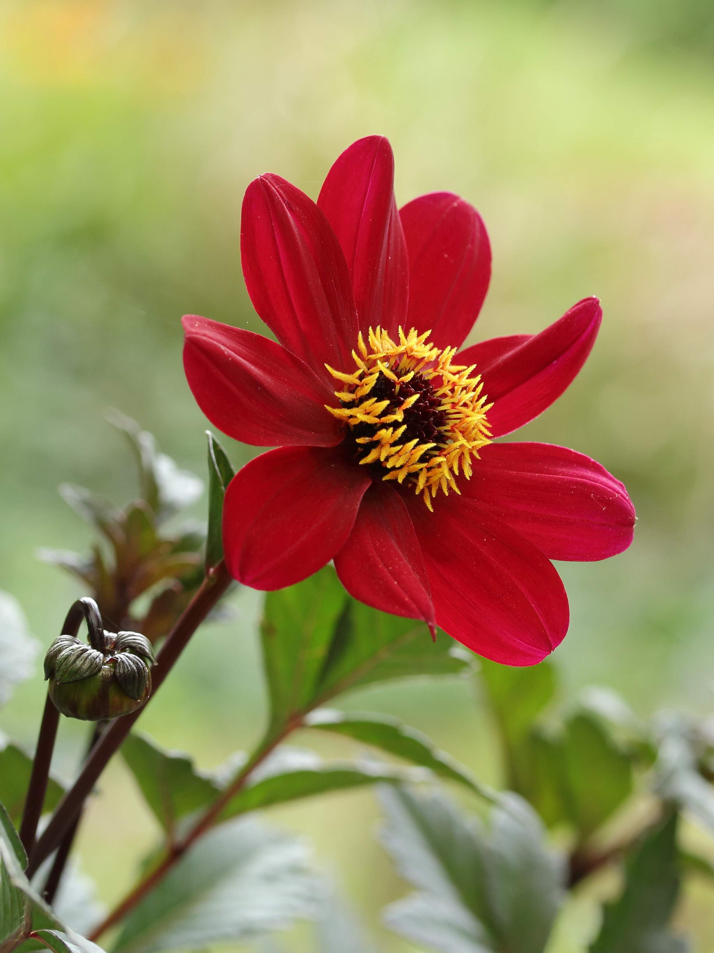 Dahlia 'Bishop of Auckland'. A nice selection.